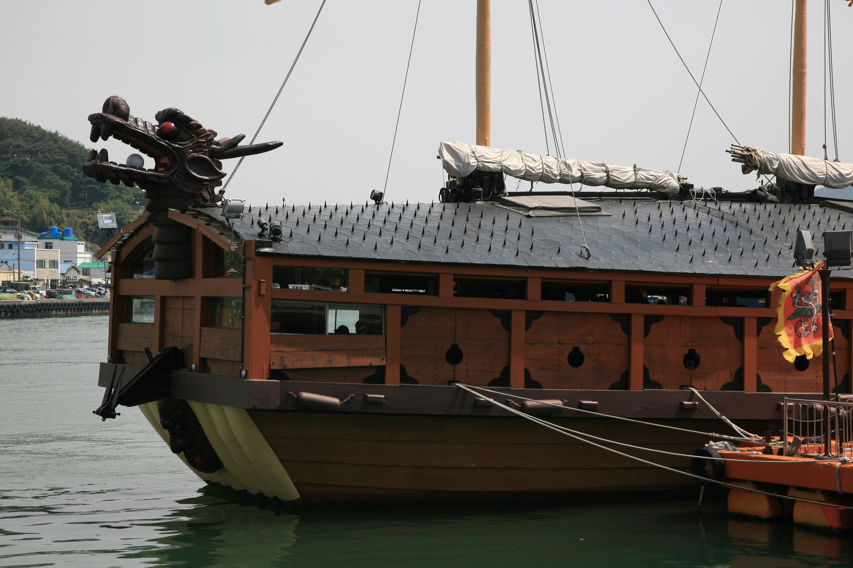 View of Hallyeo National Marine Park in Tongyeong, South Gyeongsang province, South Korea